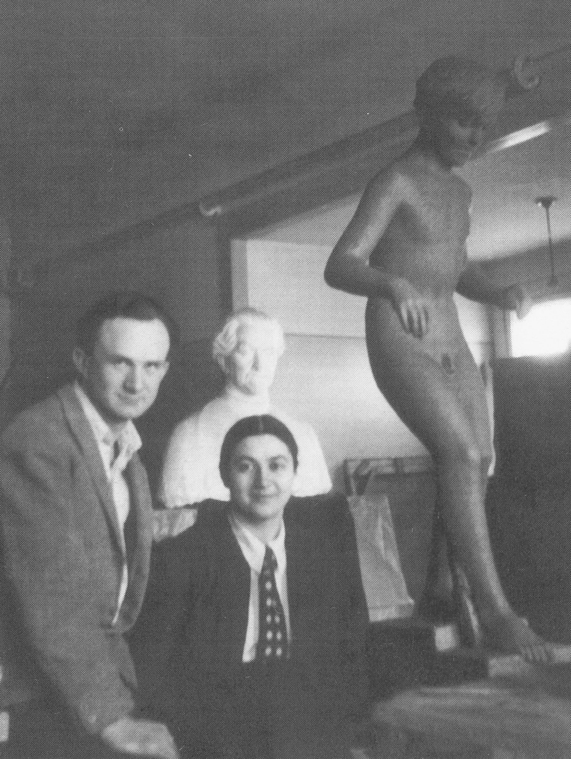 Natan Rapaport with his wife Sima in his Warsaw studio